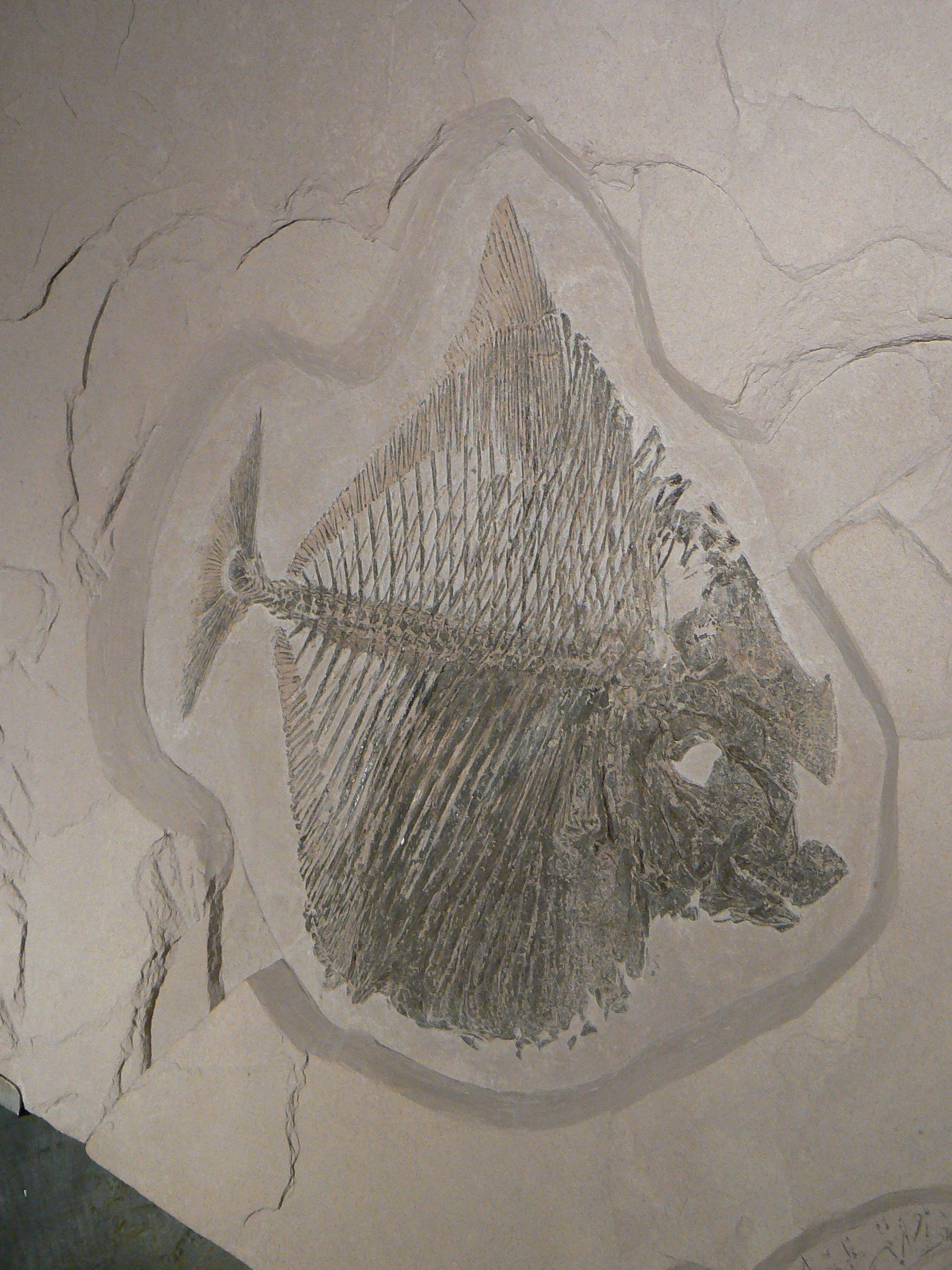 Fossil Nursallia species (cf. N. gutturosum) (arambourg 1954) in the collection of Paleontologica Coahuila.